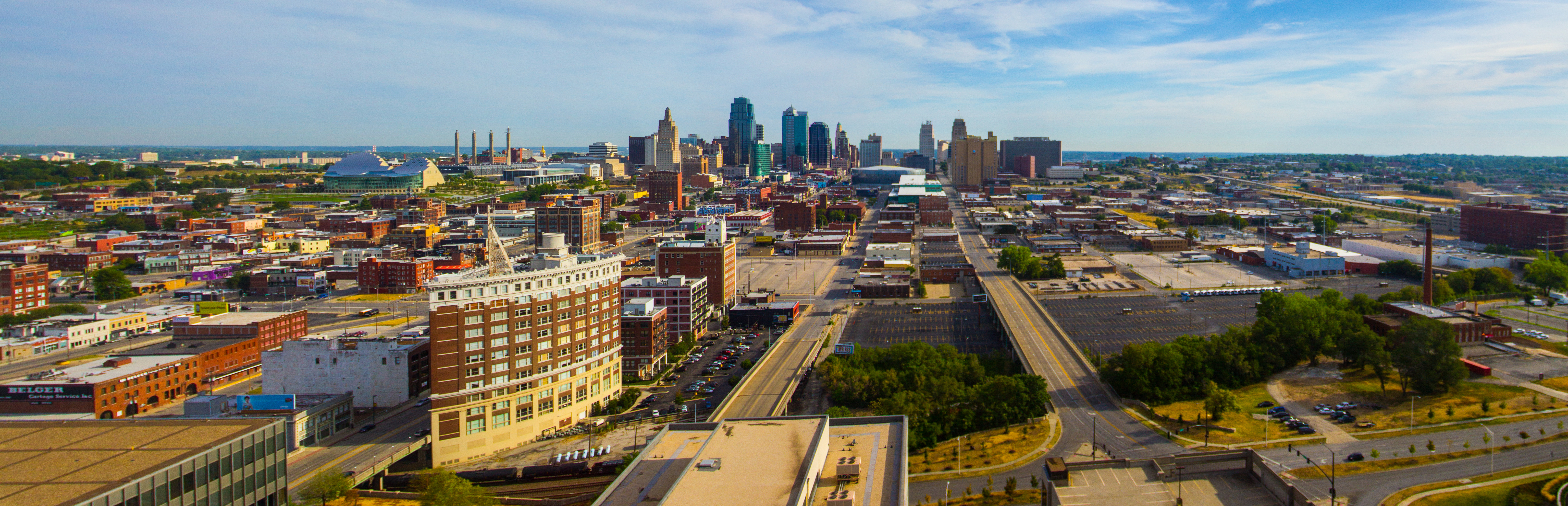 Downtown Kansas City, Missouri from Sheraton Hotel. Stitched together from 5 images.